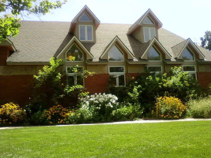 Allen Ginsberg Library